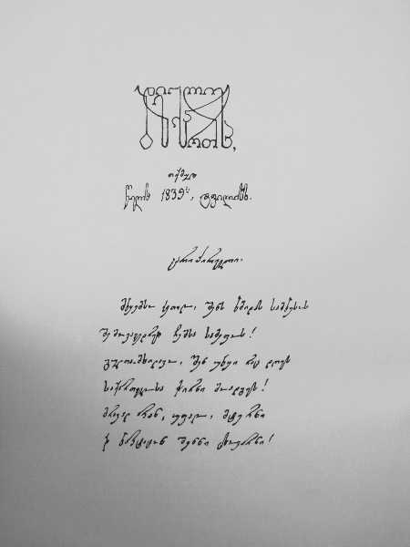 A manuscript of the poem bedi kartlisa by the Georgian poet Nikoloz Baratashvili, 1839